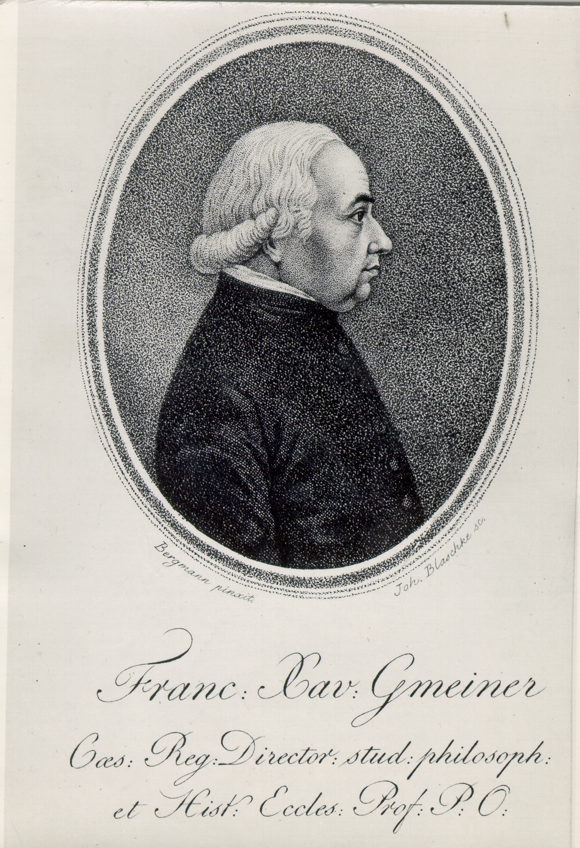 Franc Gmeiner (1752-1824), Slovene philosopher and theologian.